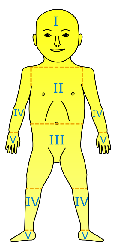 Levels of neonatal jaundice I - Bilirubin quantity between 5 and 8 mg/dl. II - Bilirubin quantity between 8 and 10 mg/dl. III - Bilirubin quantity between 10 and 13 mg/dl. IV - Bilirubin quantity between 13 and 16 mg/dl. V - Bilirubin quantity around 20 mg/dl.